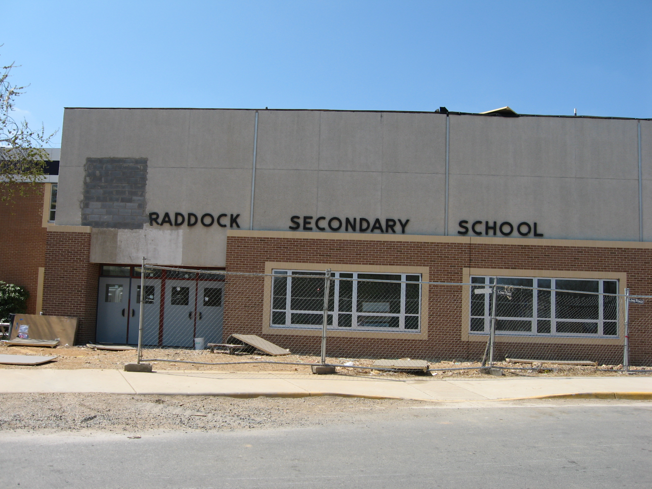 The front of Lake Braddock Secondary school, during the height of renovation (April 2006).